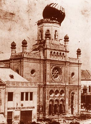 The today House of Science and Technics (then synagouge) after the 1911 Kecskemét earthquake